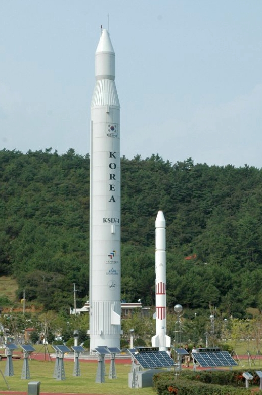 Actual-sized replica of KSLV-1 Naro at public exhibition area of Naro Space Center. Photo taken by the uploader.